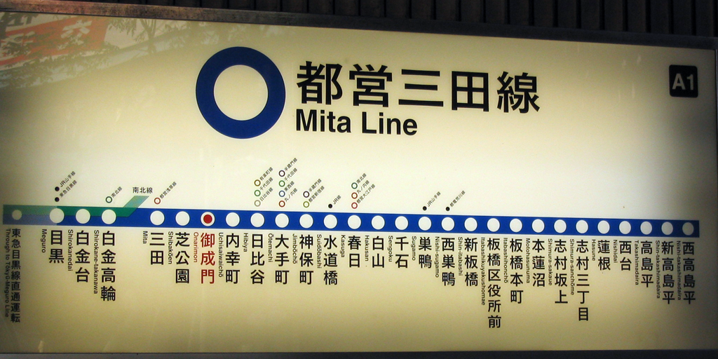 Toei Mita Line sign at Onarimon Station